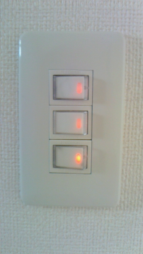 hotaru switch.at Aichi Pref.Japan